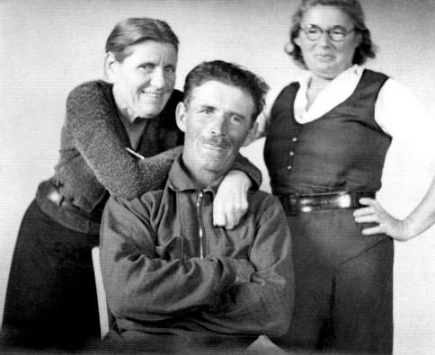 Kayla Giladi, Tzipora Zaid and Alexander Zaid